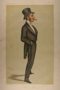 Caricature of Sir Douglas Straight. Caption read "the new Judge".